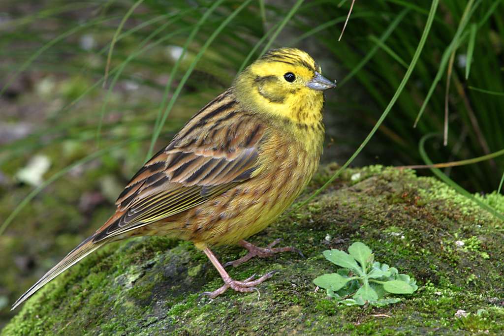 A Yellowhammer Emberiza citrinella on North Island, New Zealand.